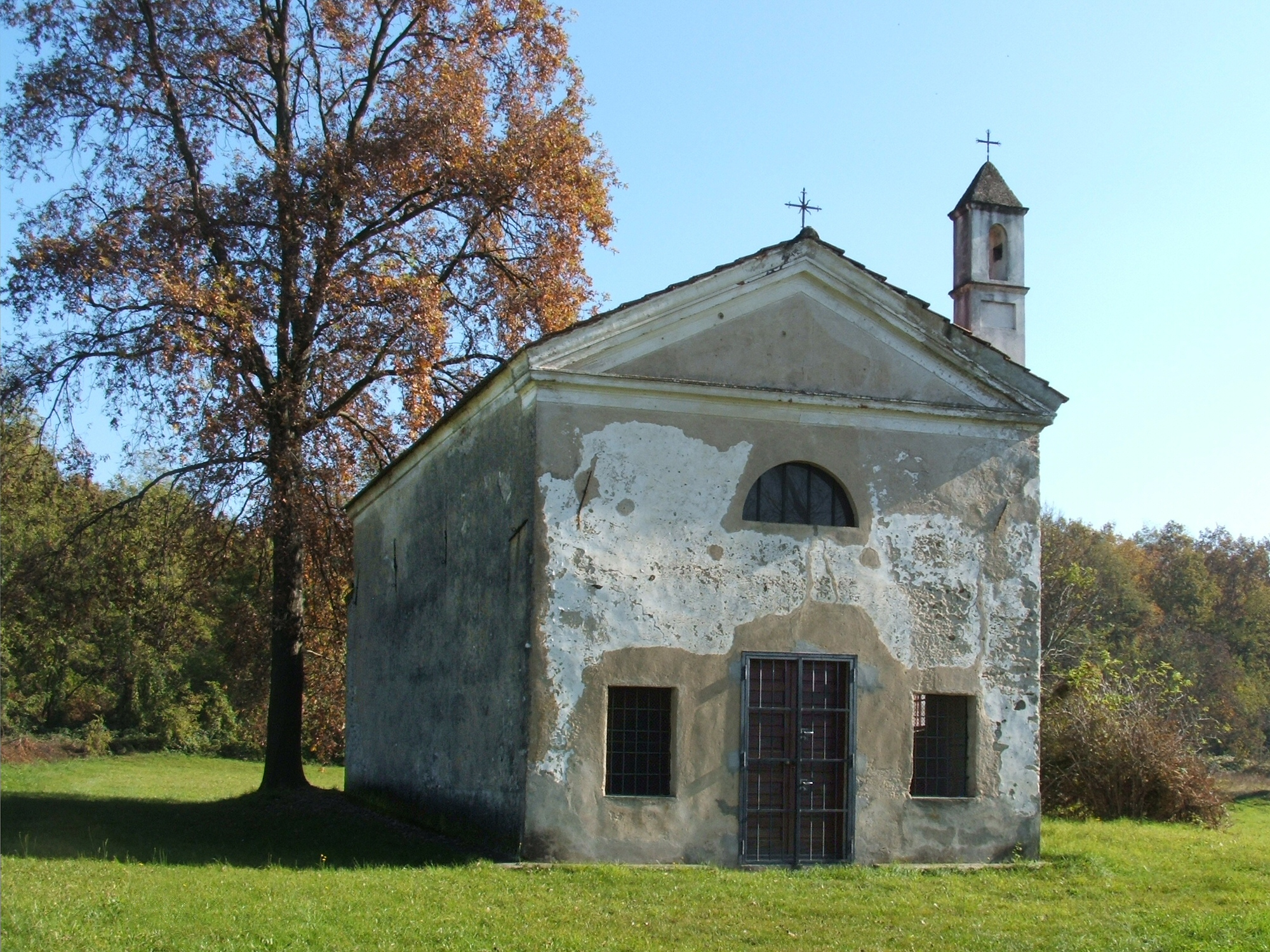 Agrate Conturbia and Bogogno, Novara, Piedmont, Italy - Church of St Maria of the valley, built about 1100